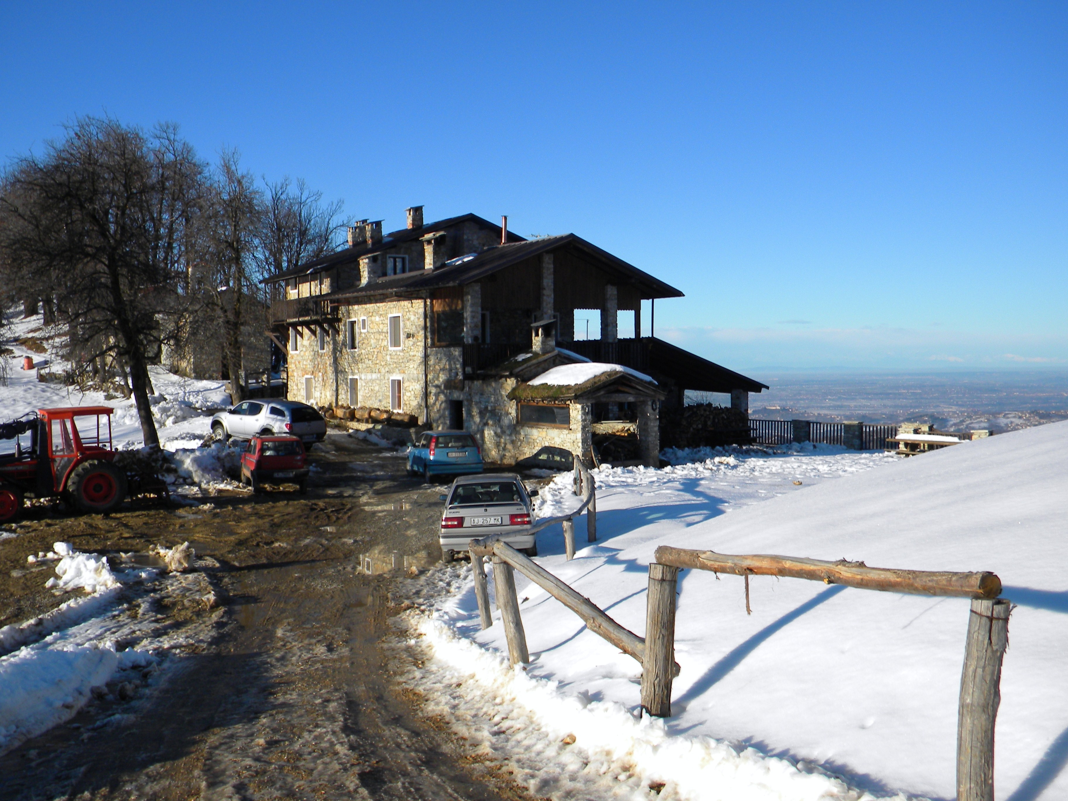 Rifugio La Maddalena Roburent (Cuneo)